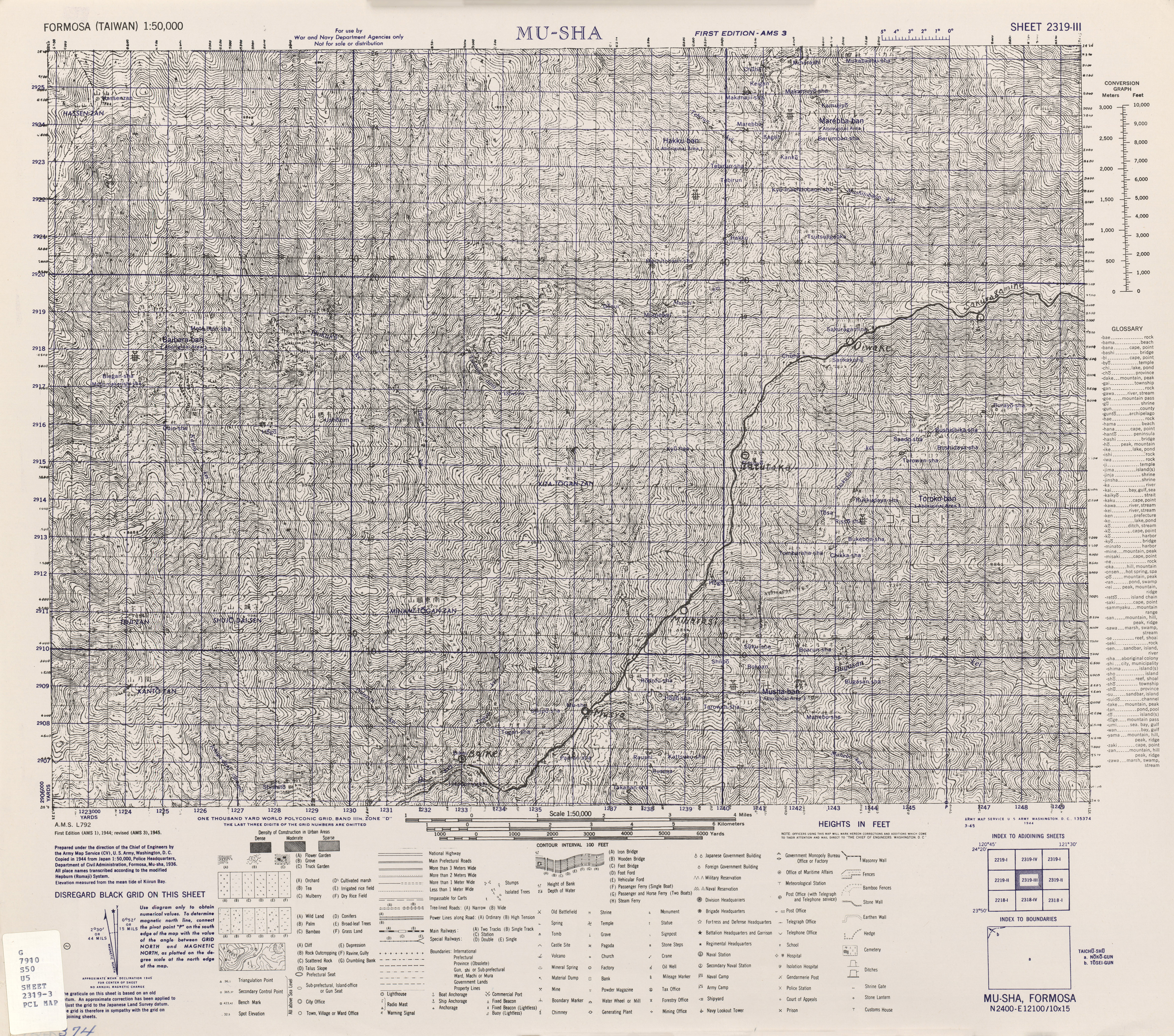 Map from Formosa (Taiwan) 1:50,000 AMS Series L792